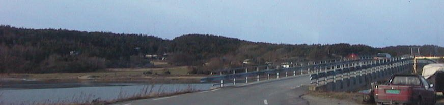 Karlsøya The bridge that connects Karlsøya with Ullerøy, seen from Karlsøya.